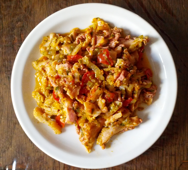 florentine trip disch